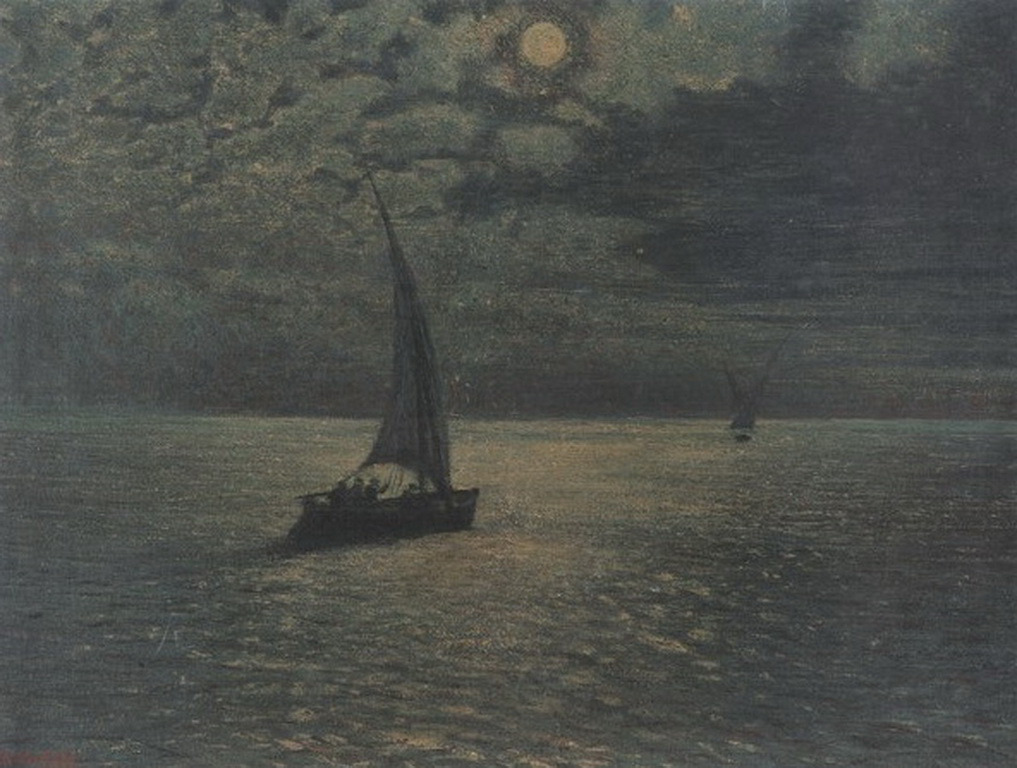 Boat in the moonlight